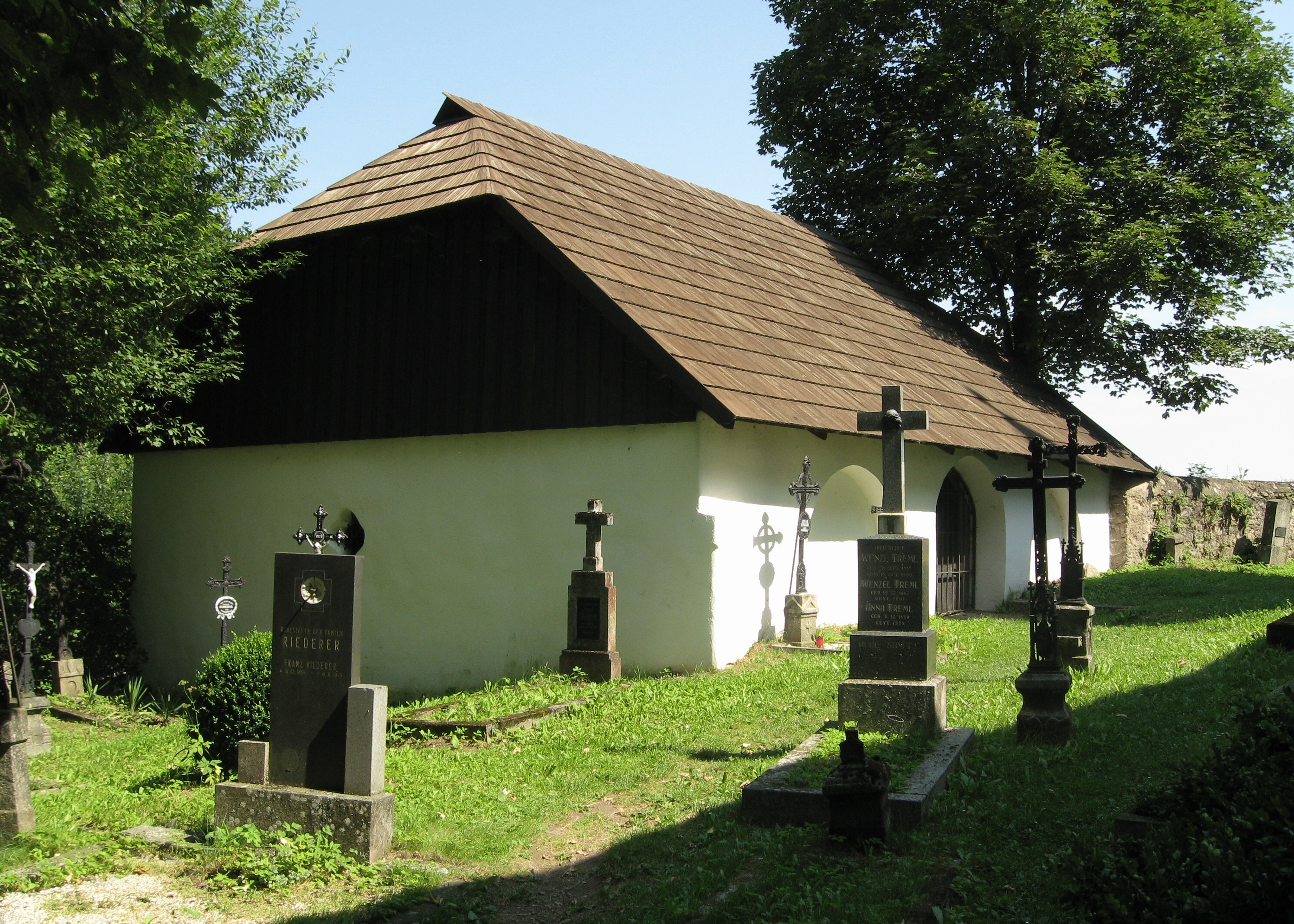 Baroque ossuary.